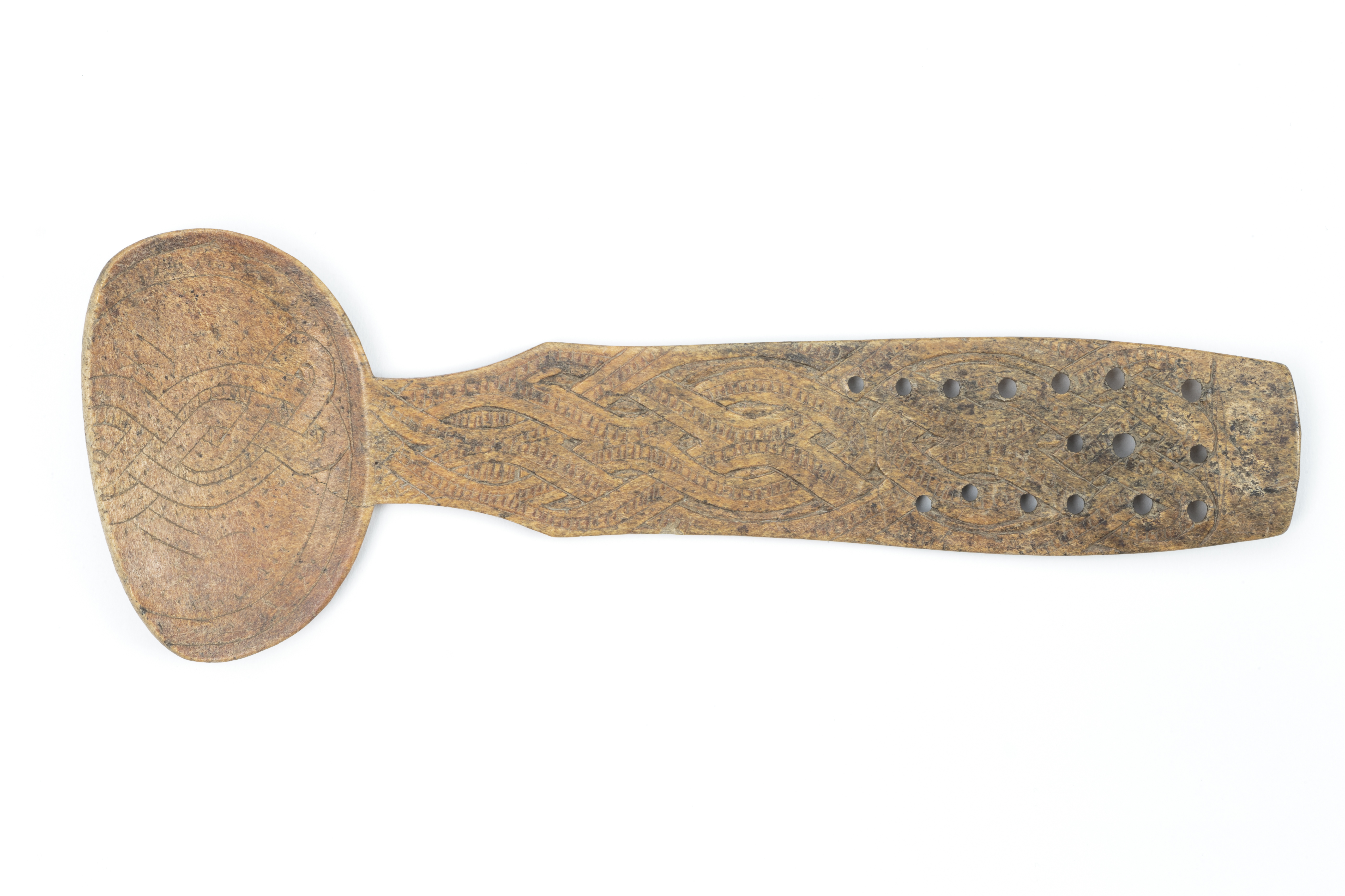 A Crusading Period spoon that was found on archaeological excavation in Tursiannotko, Finland. Photo: Saana Saana Säilynoja/Vapriikin kuva-arkisto.